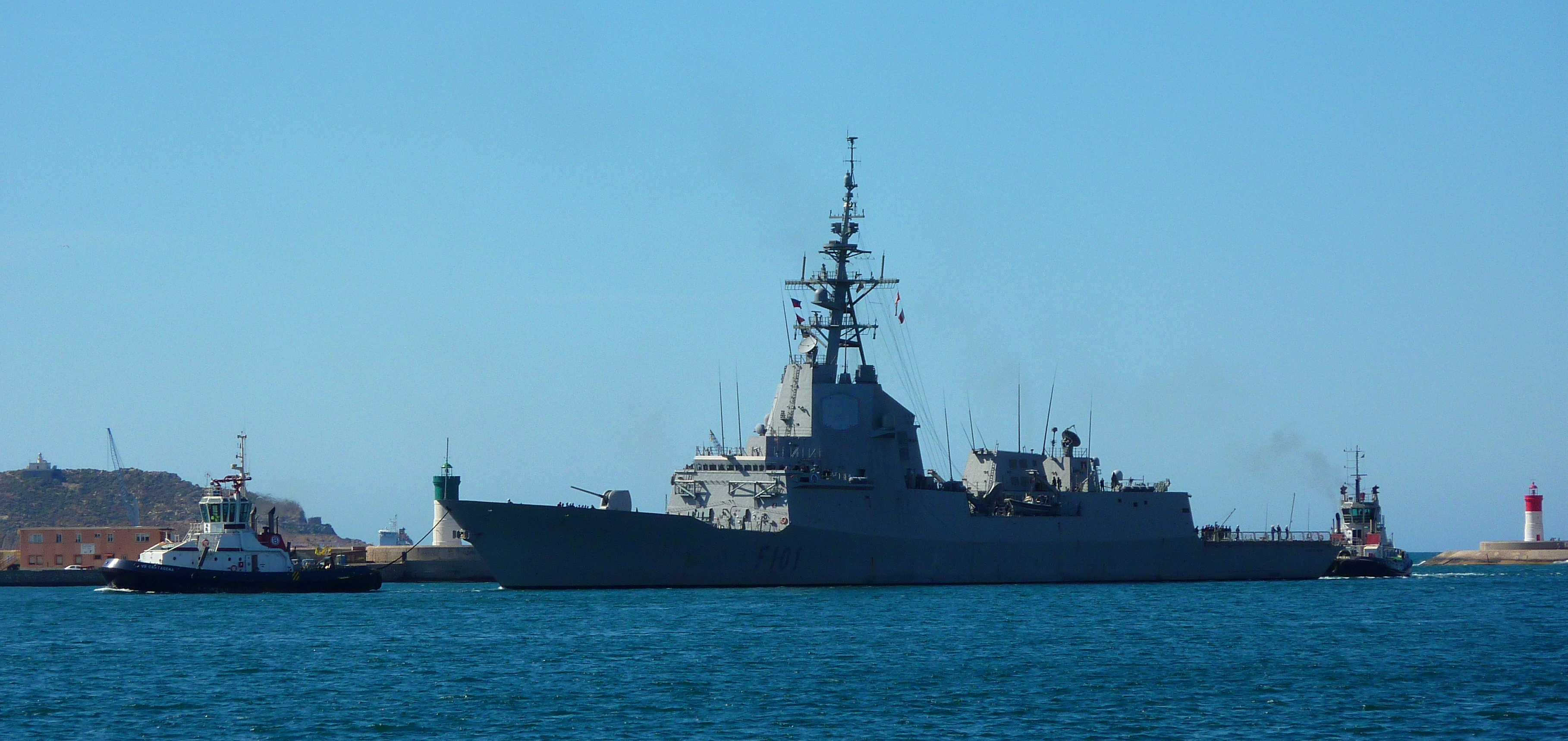 Spanish Navy Álvaro de Bazán class frigate "Álvaro de Bazán", F-101.